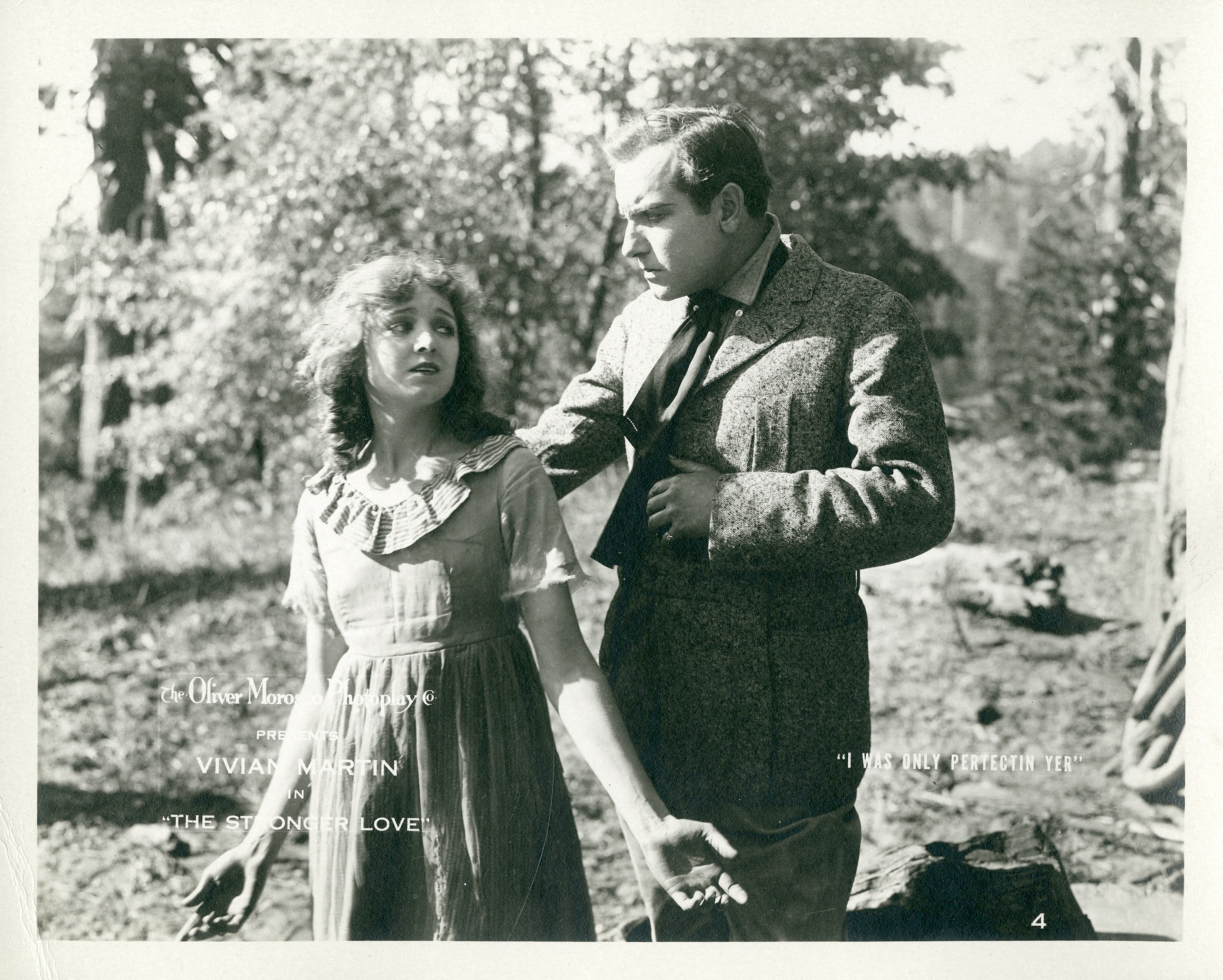 Vivian Martin in a lobby card for the American drama film The Stronger Love (1916). The caption is, "I was only protectin yer."